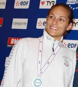 Diane Bui Duyet aux Championnats de France en petit bassin 2011